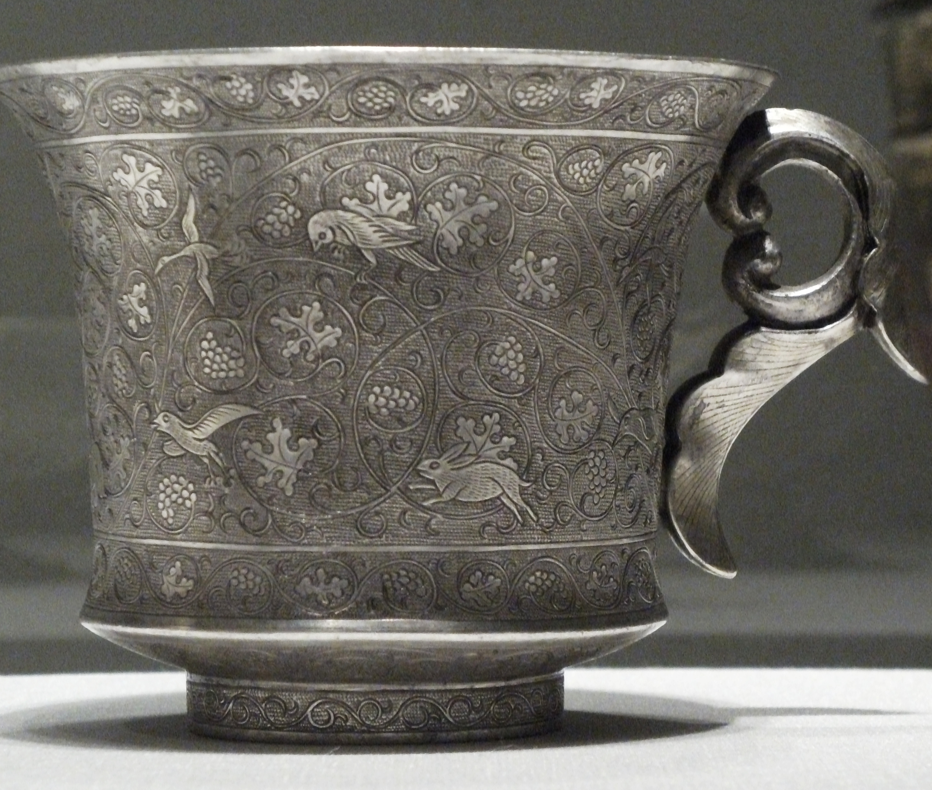 Freer Gallery of Art, Washington. Wine cup with ring handle, probably Chang'an, Shaanxi province, China, early Tang dynasty, early 8th century AD, cast and hammered silver with mercury gilding